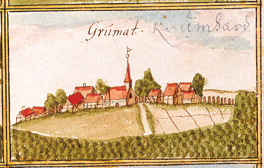 View of Krummhardt, Aichschieß, Aichwald, from the forest register books created by Andreas Kieser